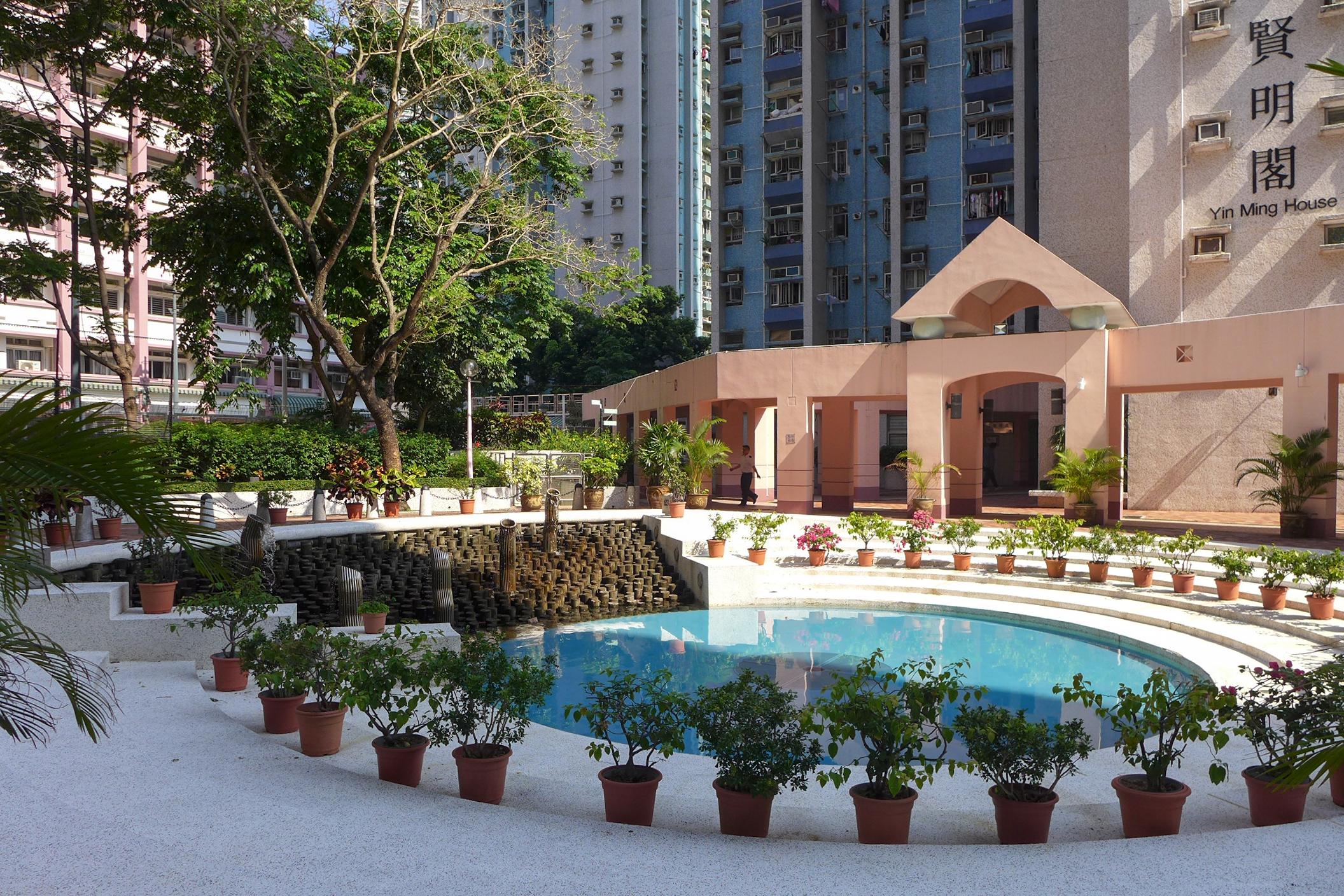 Chung Ming Court Fountain Plaza